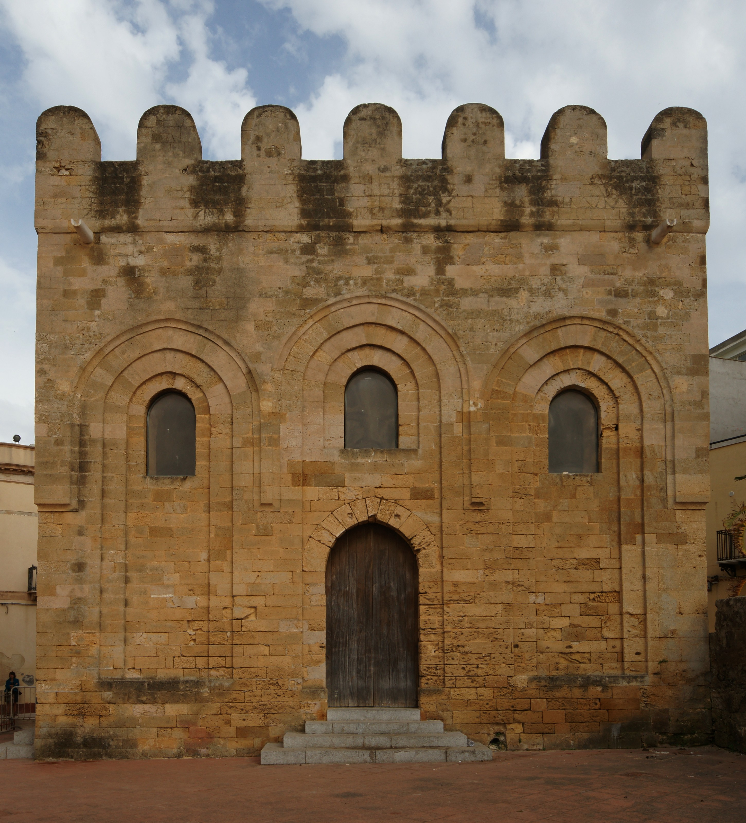 Mazara del Vallo: Chiesa di San Nicolo Regale